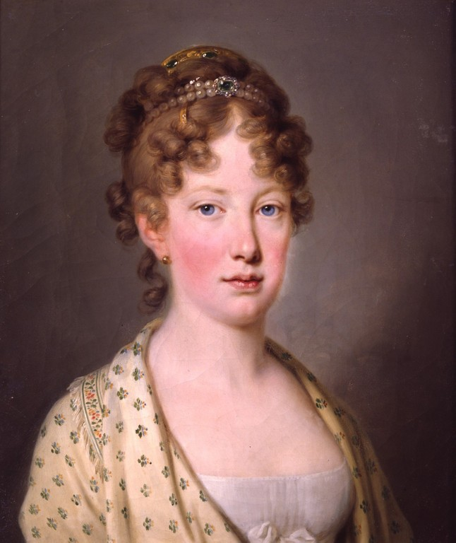 Maria Leopoldina of Austria (1797-1826), empress consort of Brazil.